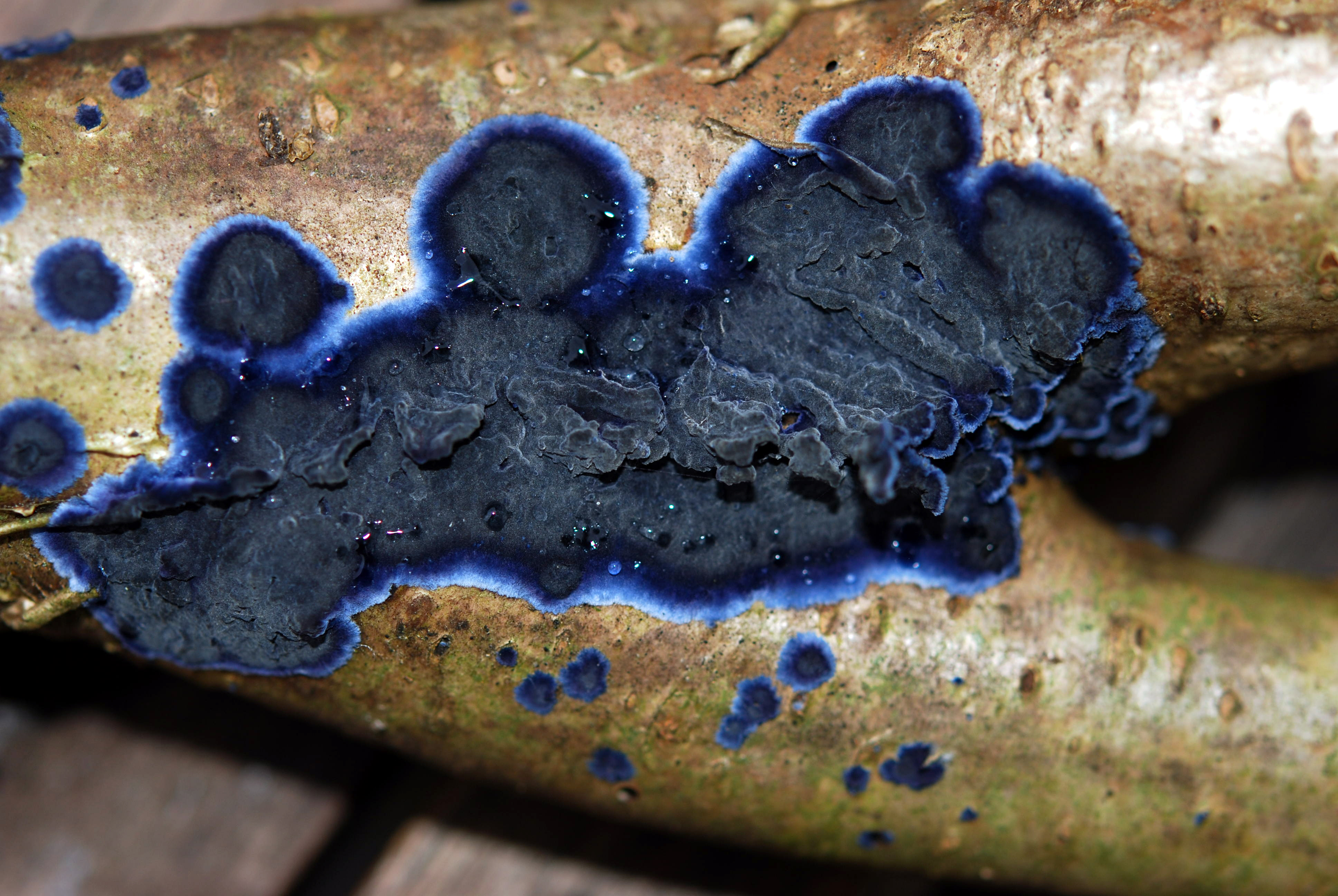 Velvet blue spread (Terana caerulea) in alluvial forest, on dead but still attached hazel twig (Corylus avellana)